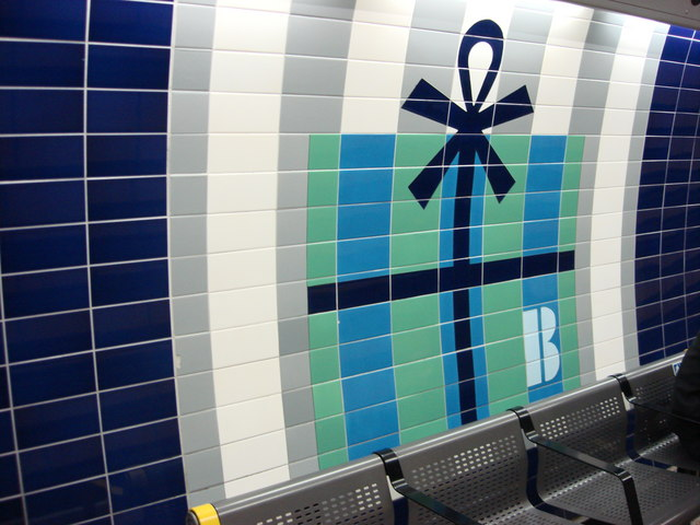 Present motif on Bond Street Jubilee line platforms